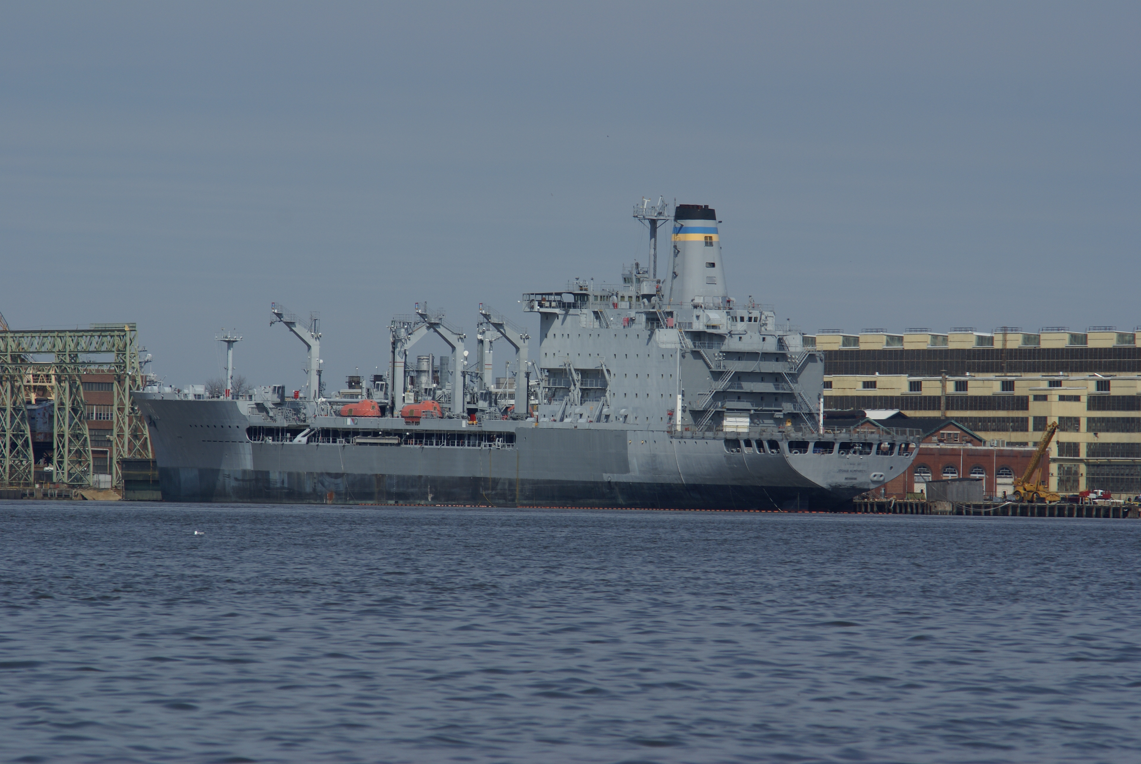 USNS Joshua Humphreys (T-AO-188) at the Naval Inactive Ship Maintenance Facility, Philadelphia Navy Yard, Delaware River